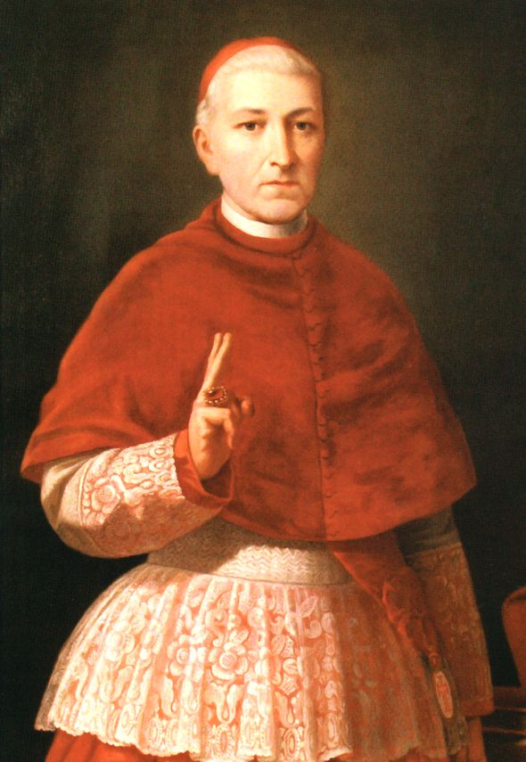 Dom Guilherme Henriques de Carvalho (1793-1857), Cardinal-Patriarch of Lisbon.